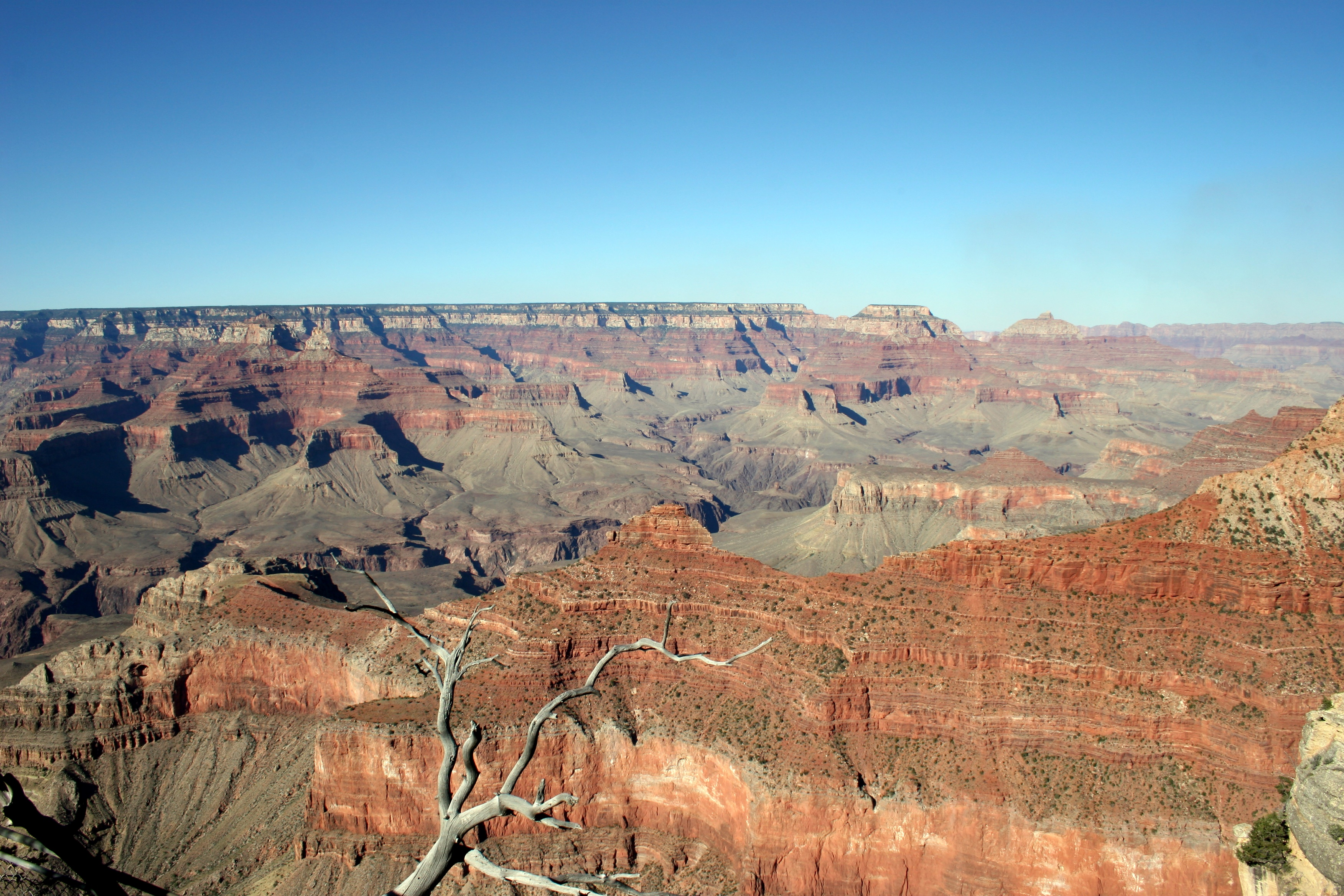 Grand Canyon, view northest overlooking smaller Pattie Butte, and Newton Butte, to photo right (prominence off photo). The major canyon across Granite Gorge is up Clear Creek (Arizona), the canyon region named Ottoman Amphitheater; flat-topped (Kaibab Limestone/Formation)-(separated from Walhalla Plateau (Kaibab Plateau, North Rim)), landform is Wotans Throne.